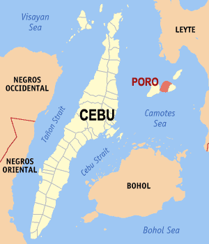 Map of Cebu showing the location of Poro